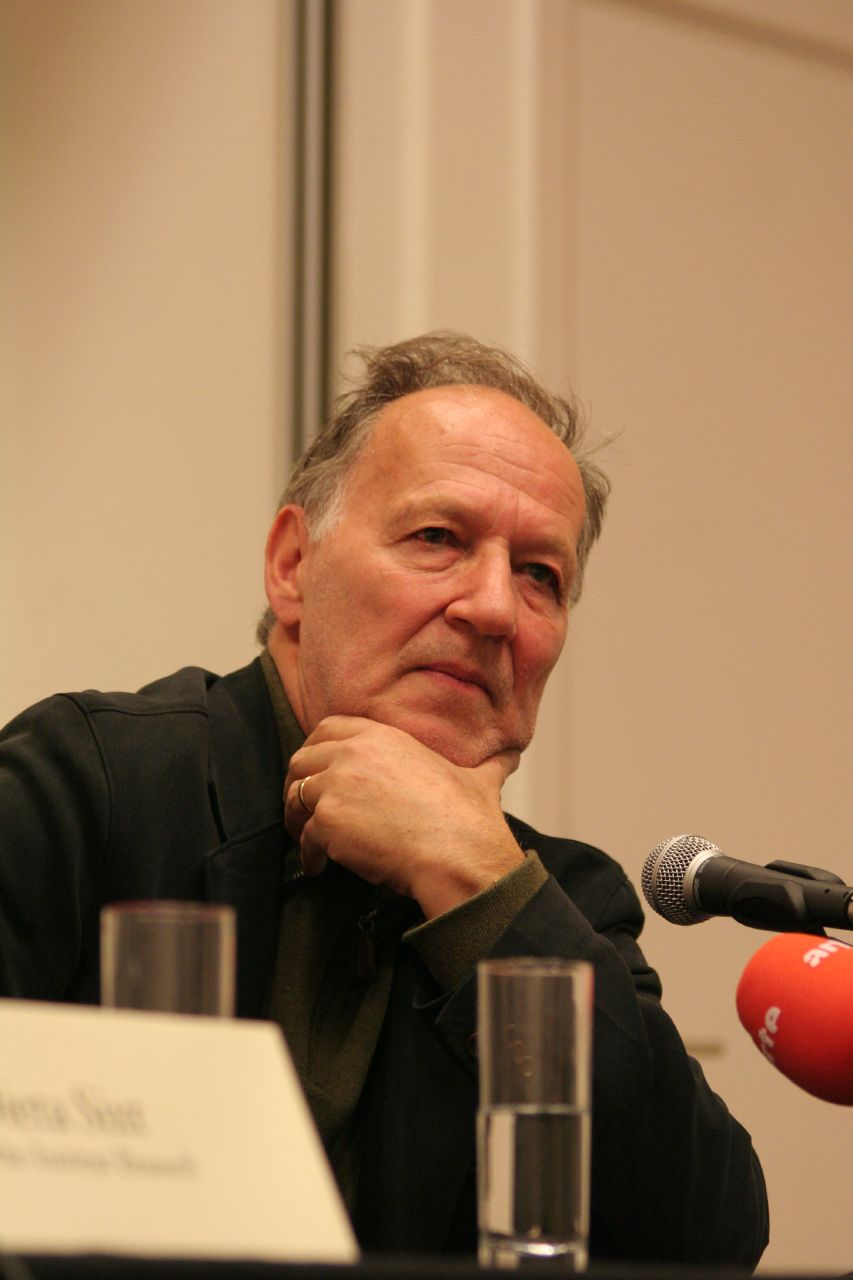 Director Werner Herzog at a press conference in Bruxelles